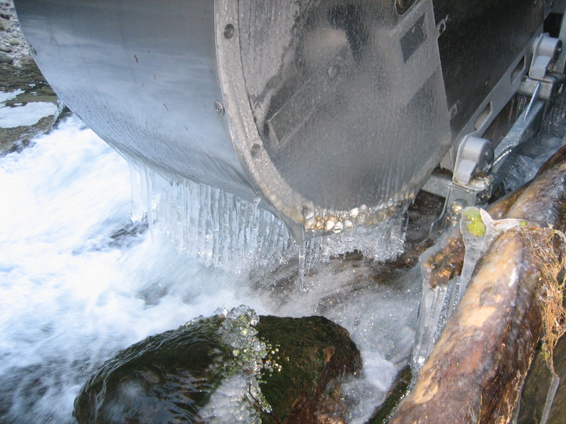 Steffturbine running during winter season at Pilgersteg, Rüti, Switzerland